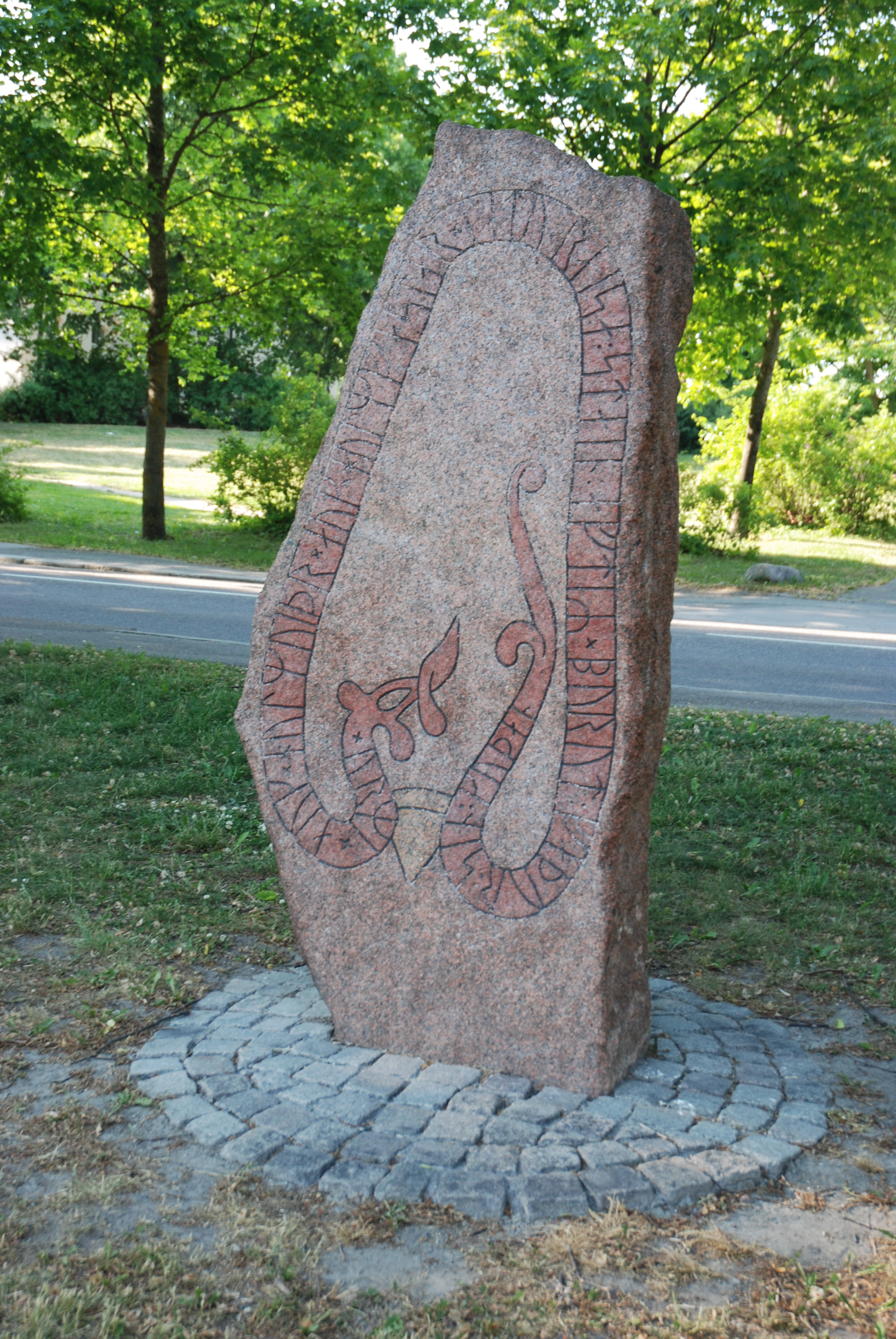 Brodd's stone, a replica from 2004 of a stolen runestone, Norrtälje, Sweden, U 530